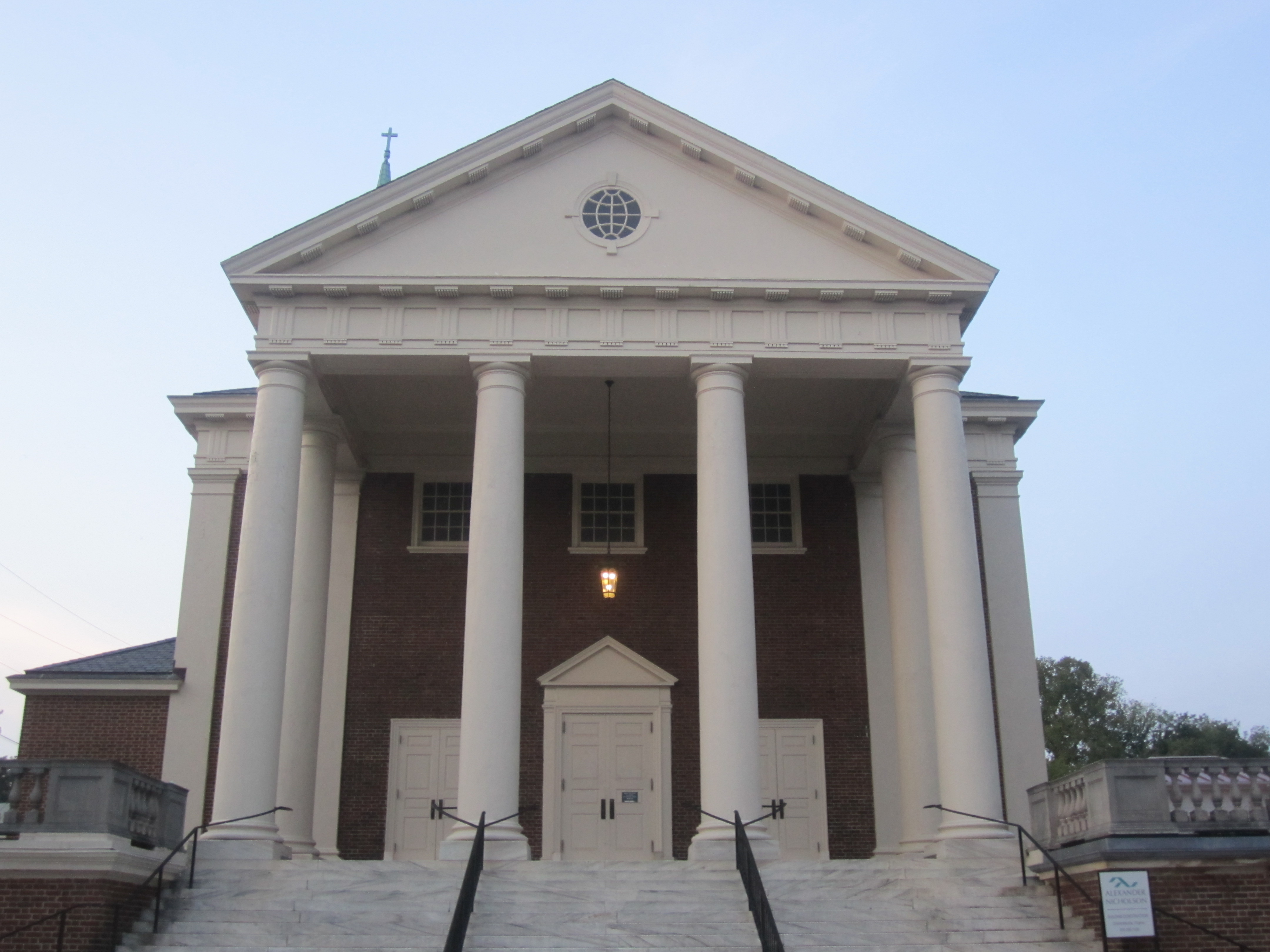 I took photo of First United Methodist Church in downtown Charlottesville, VA, with Canon camera.